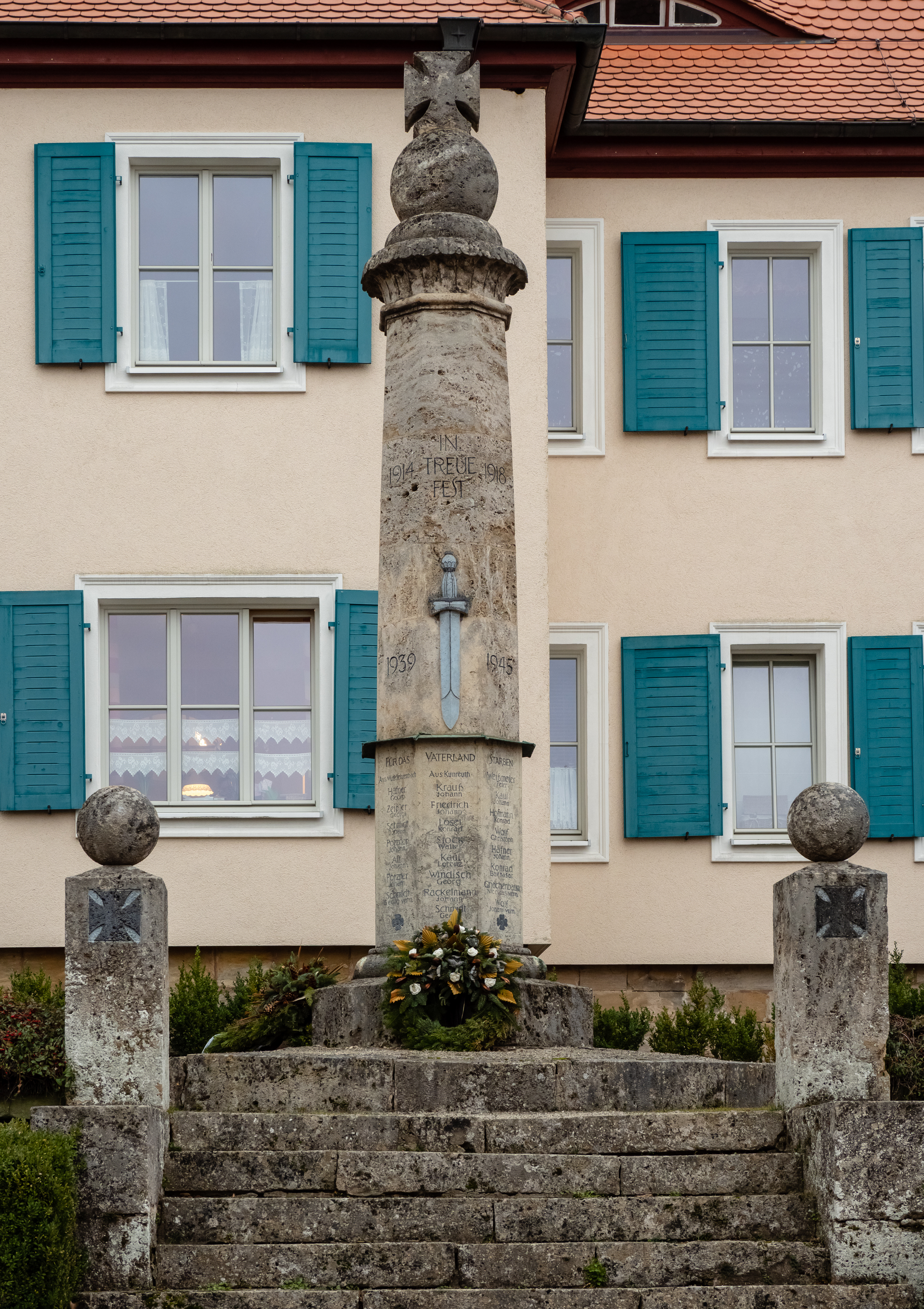 War memorial in Kunreuth